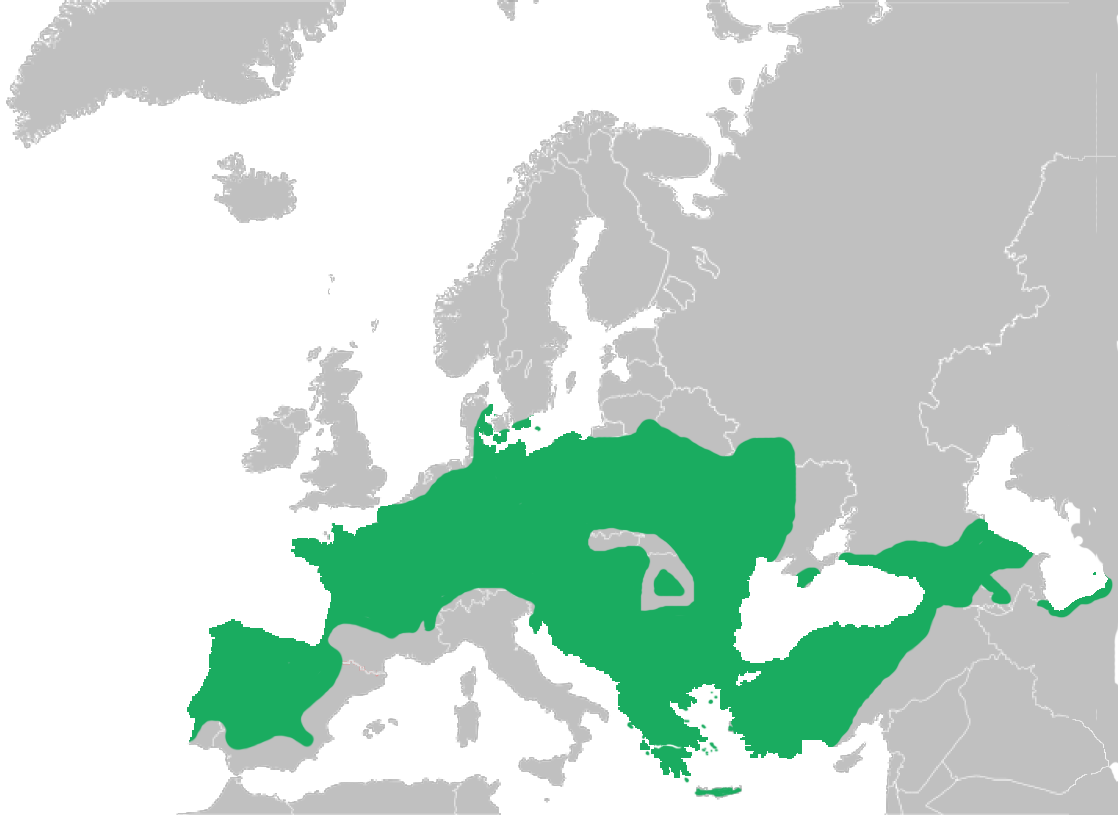 Range map of Hyla arborea.